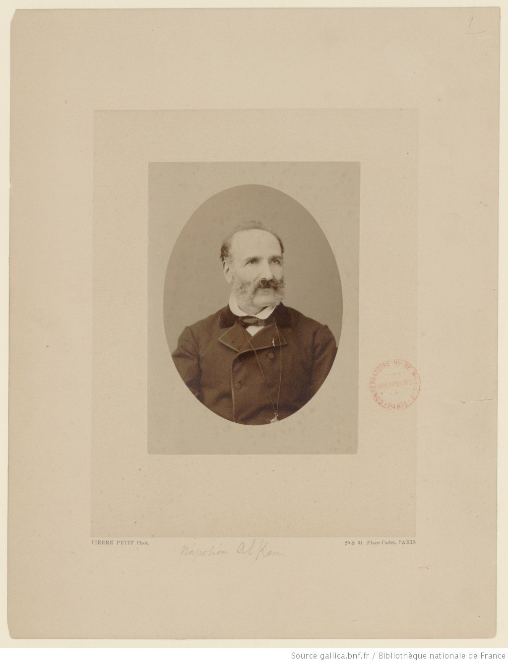 Portrait photo of Napoléon Alkan (brother of Charles-Valentin Alkan) by Pierre Petit, (1831-1909)